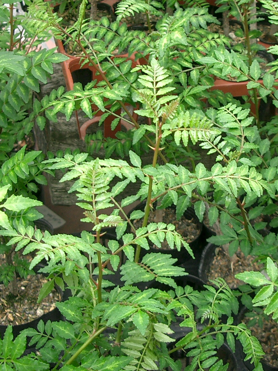 green leaves of Zanthoxylum piperitum, サンショウ